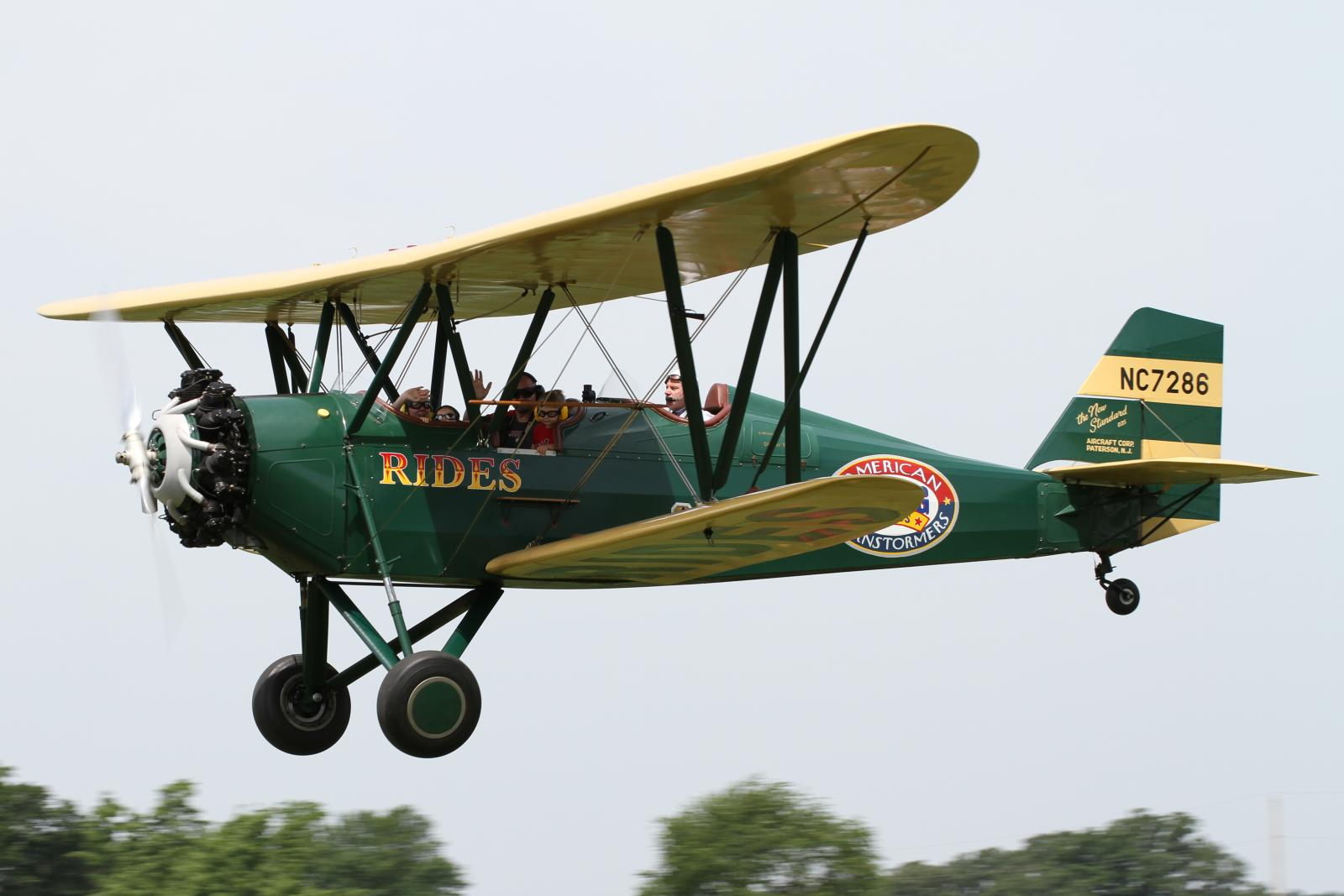 1941 White NEW STANDARD D-25A C/N 167W; Big Foot Fly-In Walworth Wisconsin June 25th 2011